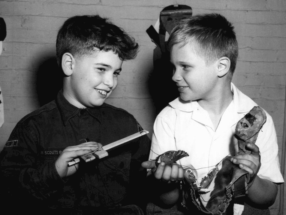 Photo of Boston Cub Scout Peter Finn (left) and Brandon deWilde as deWilde was made an honorary member of the local scout pack.